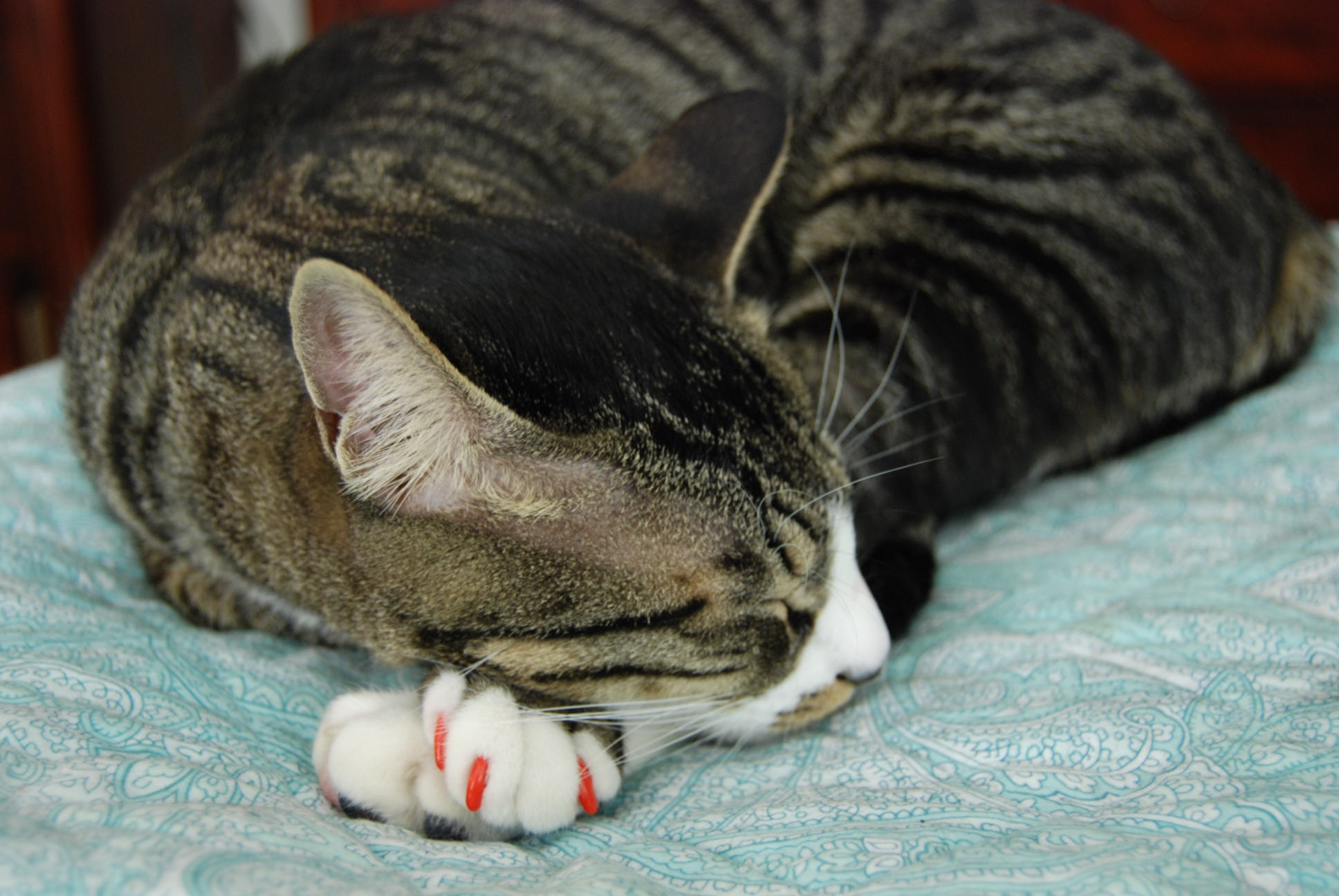 Oscar is outfitted with red Soft Paws nail covers.